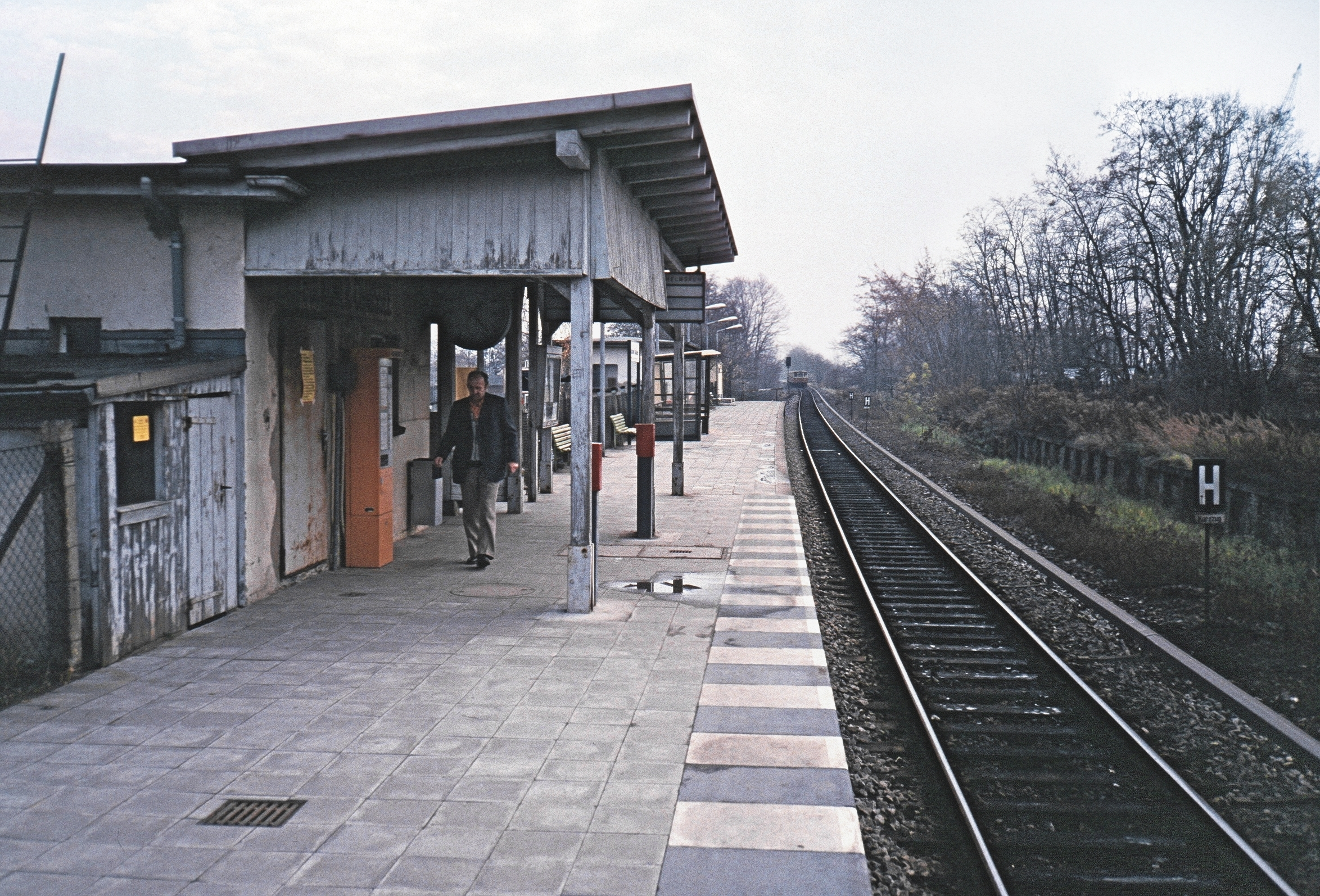 Berlin S-Bahn train station Buckower Chaussee, Berlin, Germany